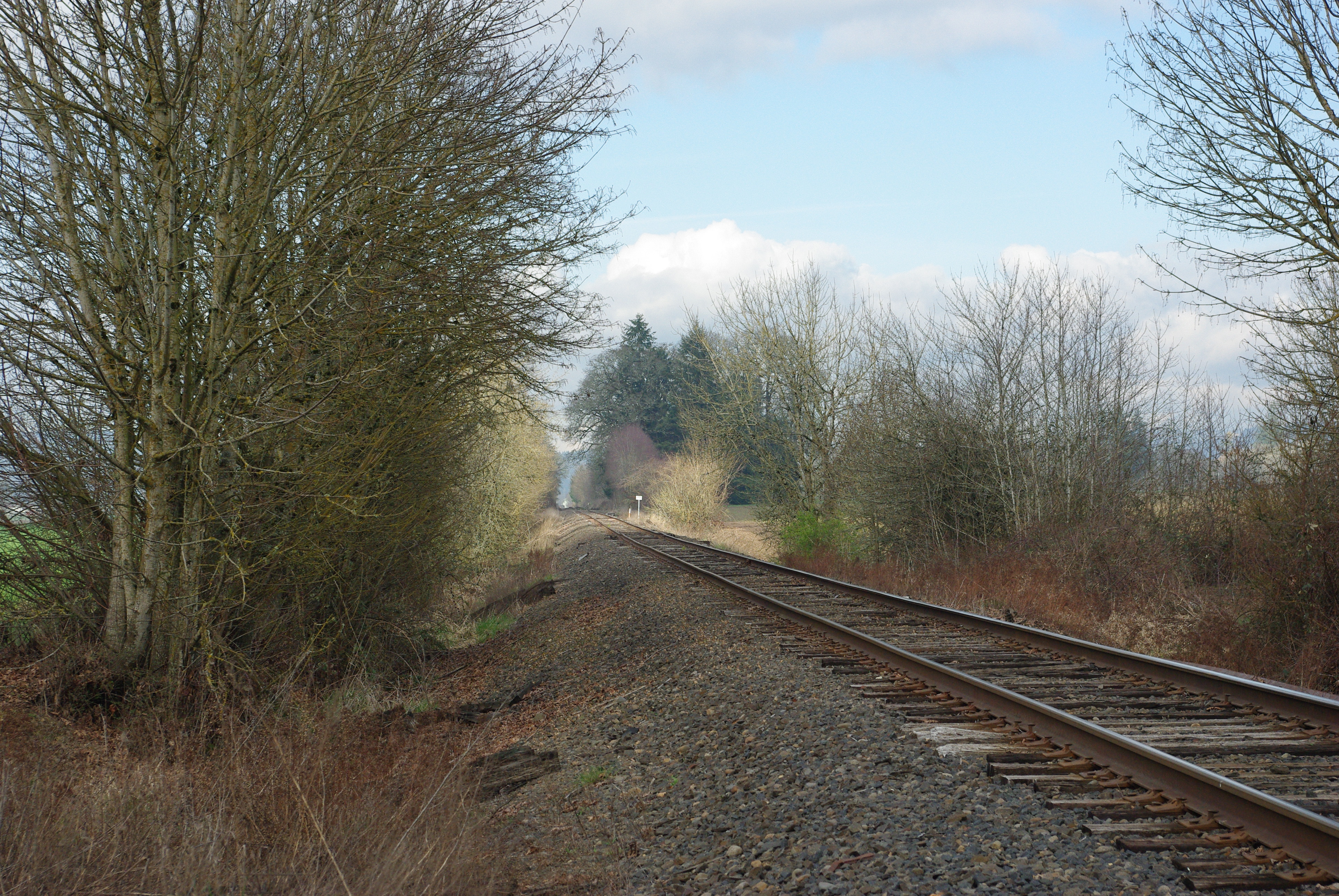 Port of Tillamook Bay Railroad tracks in Washington County, Oregon, near Roy area. Looking northwest from Salzwedal Road.